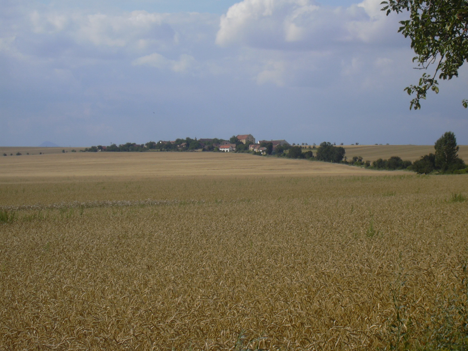 Little village Hospozínek in the Czech Republic, view from the south.